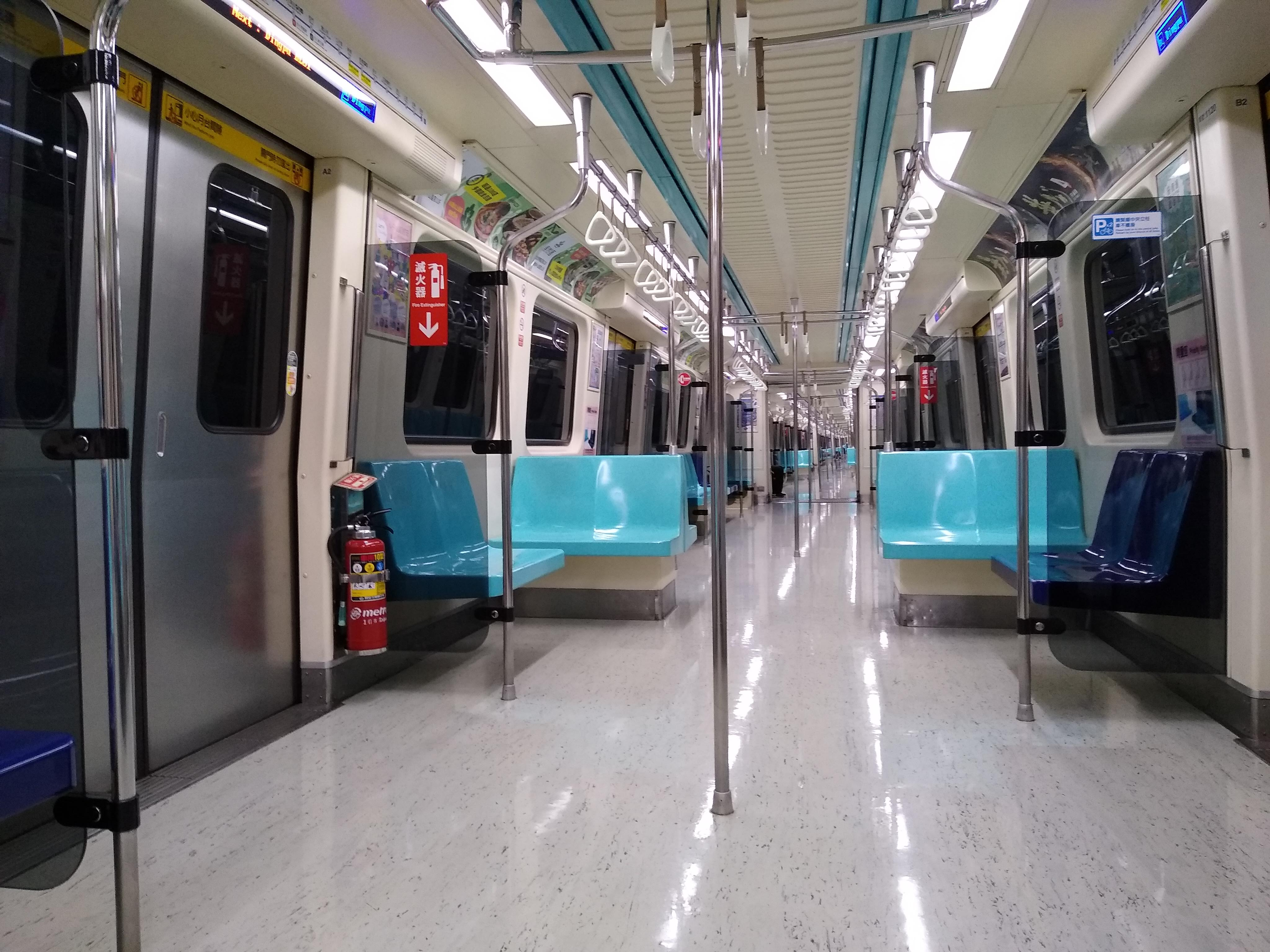 Taipei Metro C321, car No. 1120 on the Bannan Line, pulling into Dingpu Station at the end of the line.